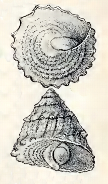 Lithopoma tectum (Lightfoot, 1786); family Turbinidae